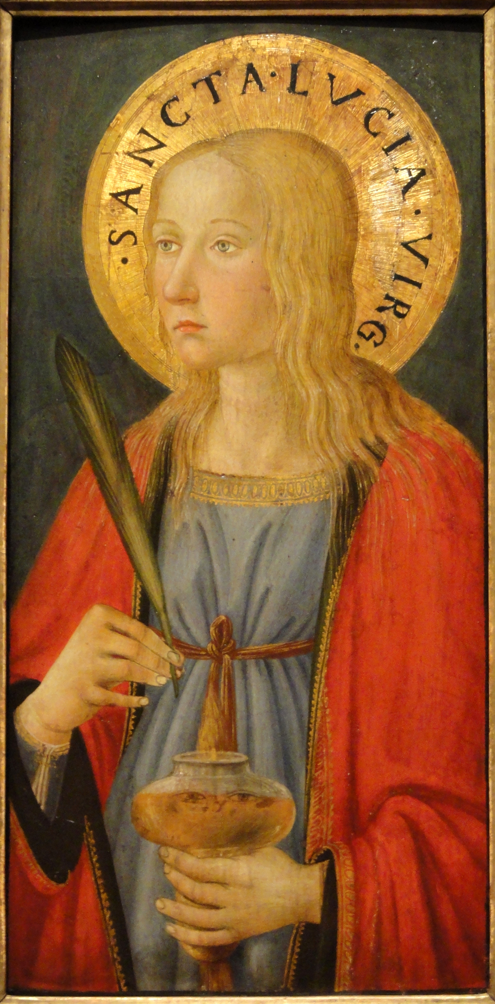 Exhibit in the San Diego Museum of Art, San Diego, California, USA. This artwork is old enough so that it is in the public domain. This photograph was taken without permission, against explicit labeled instructions not to photograph it.